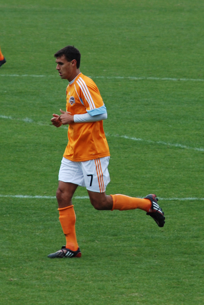 Scrimmage – Houston vs. Montreal @ Robertson Stadium